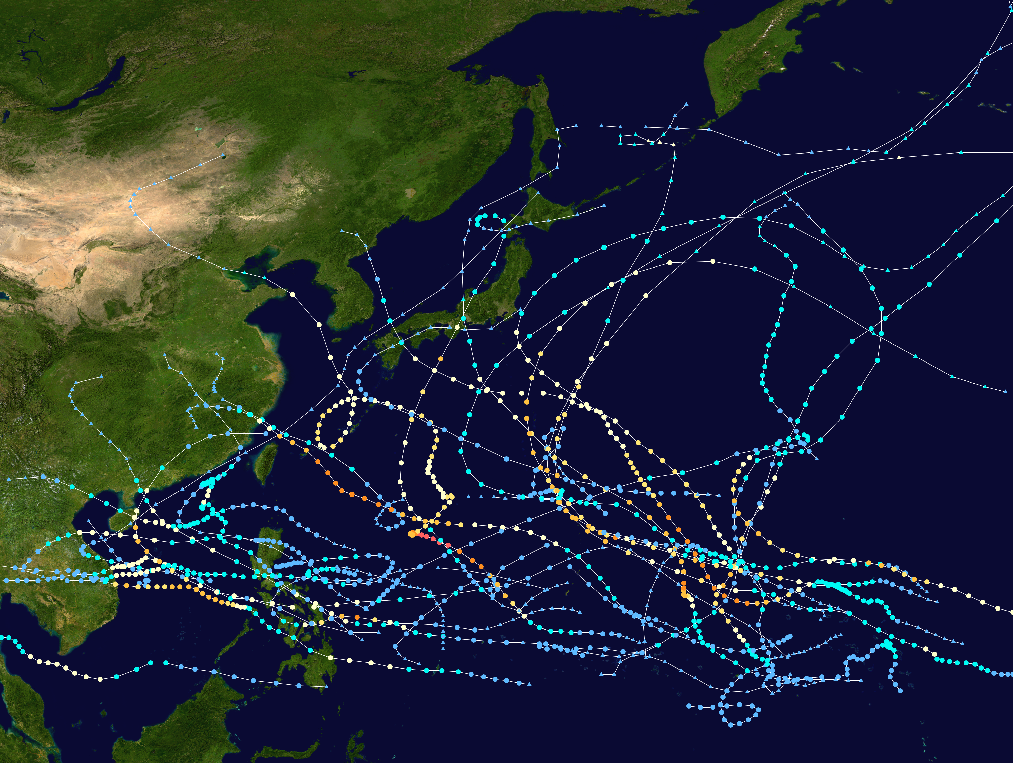 This map shows the tracks of all tropical cyclones in the 1972 Pacific typhoon season. The points show the location of each storm at 6-hour intervals. The colour represents the storm's maximum sustained wind speeds as classified in the Saffir-Simpson Hurricane Scale (see below), and the shape of the data points represent the type of the storm. Saffir–Simpson hurricane wind scale Tropical depression≤38 mph≤62 km/h Category 3111–129 mph178–208 km/h Tropical storm39–73 mph63–118 km/h Category 4130–156 mph209–251 km/h Category 174–95 mph119–153 km/h Category 5≥157 mph≥252 km/h Category 296–110 mph154–177 km/h Unknown Storm typeTropical cycloneSubtropical cycloneExtratropical cyclone / Remnant low / Tropical disturbance